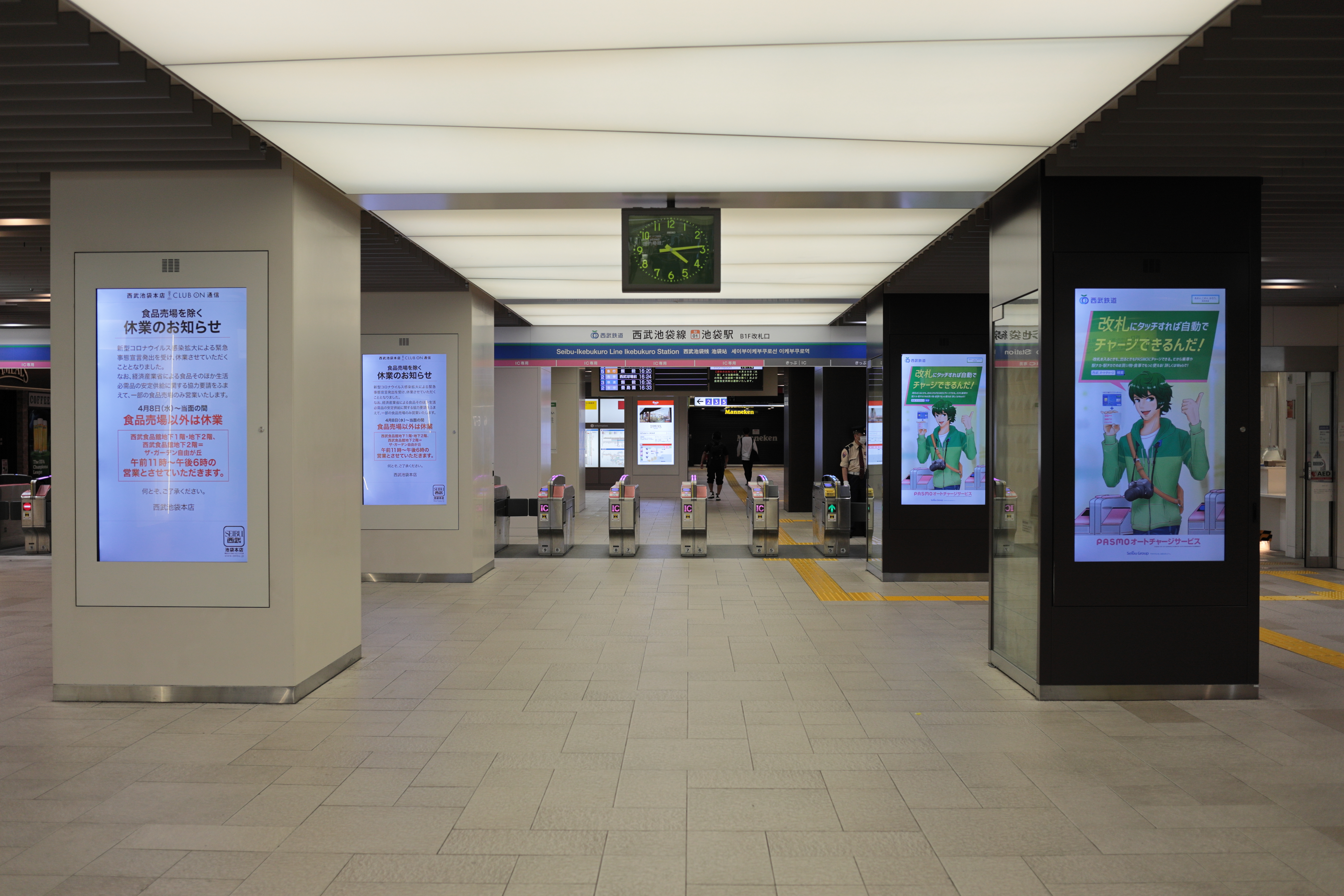 Ikebukuro Station, Seibu Line Underground Gate